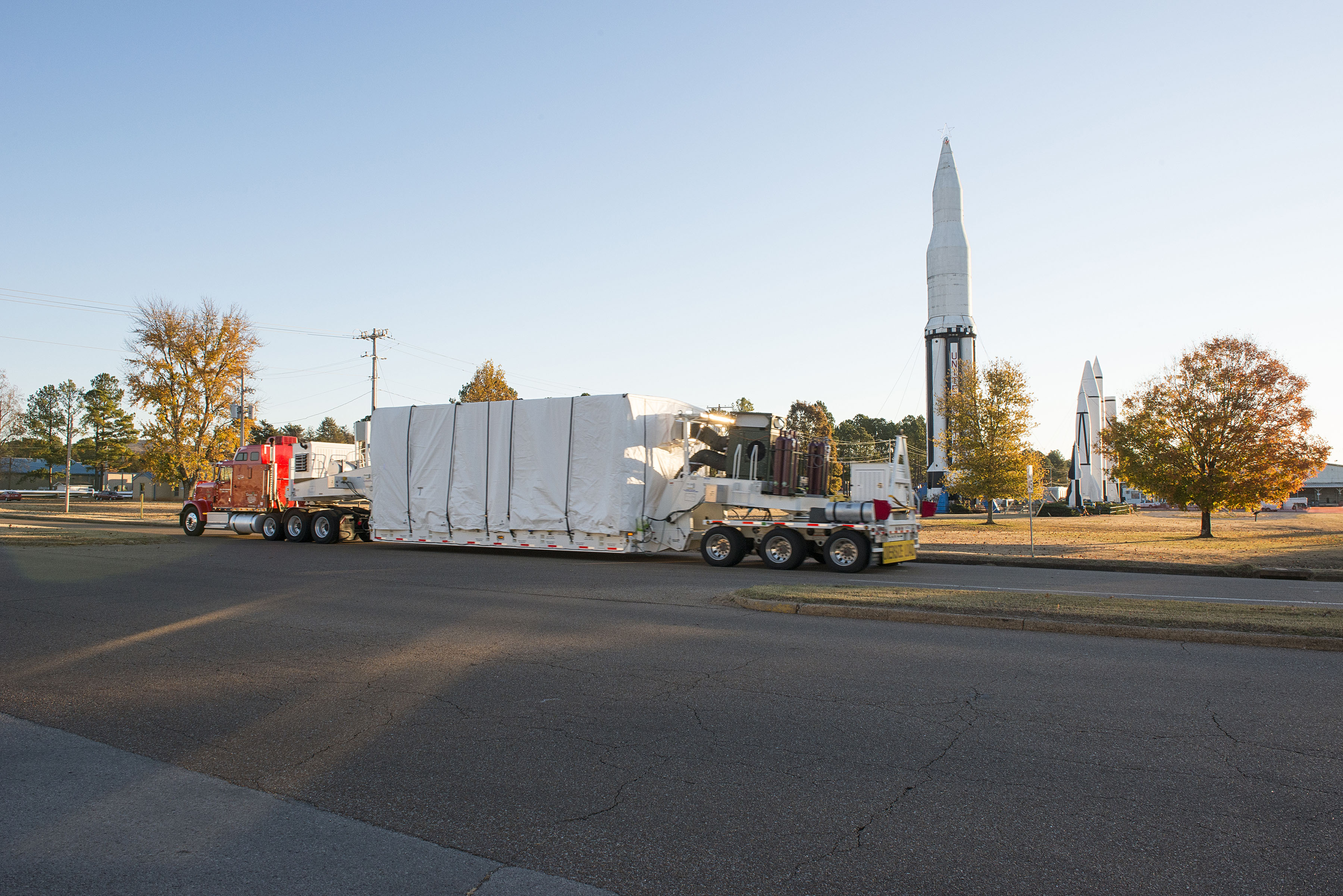 Bound for Northrup Grumman in Redondo Beach, Calif., the James Webb Space Telescope's critical backplane testing has been completed at Marshall. Here the backplane is being ferried by big rig to the Redstone Arsenal airfield for transport. The backplane has been at Marshall since late August for cryotesting in the center's X-ray & Cryogenic Test Facility. The backbone of the telescope, the backplane will support its 18 beryllium mirrors, instruments and other elements while the telescope is looking into deep space.